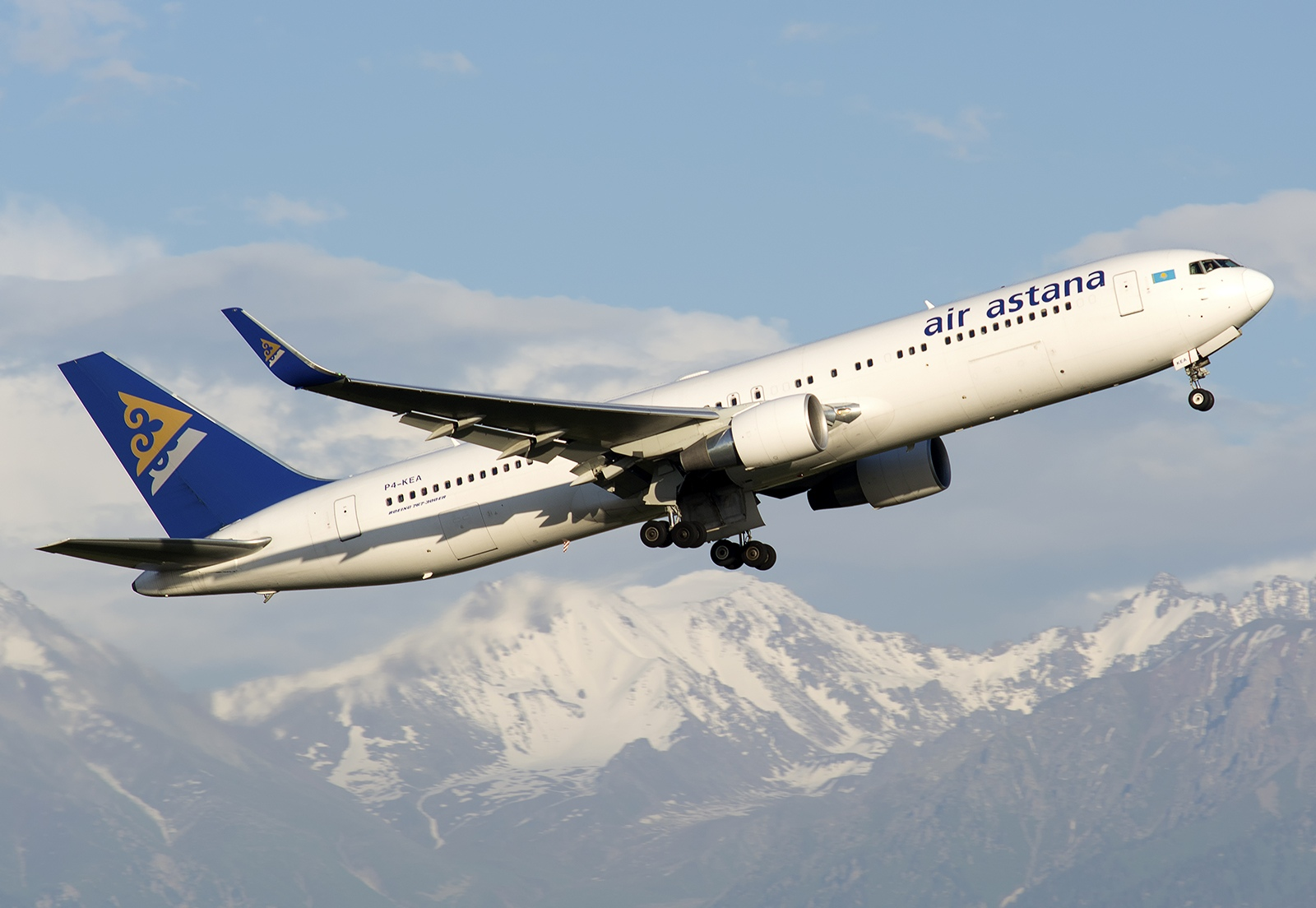 Boeing 767-300ER "Air Astana"